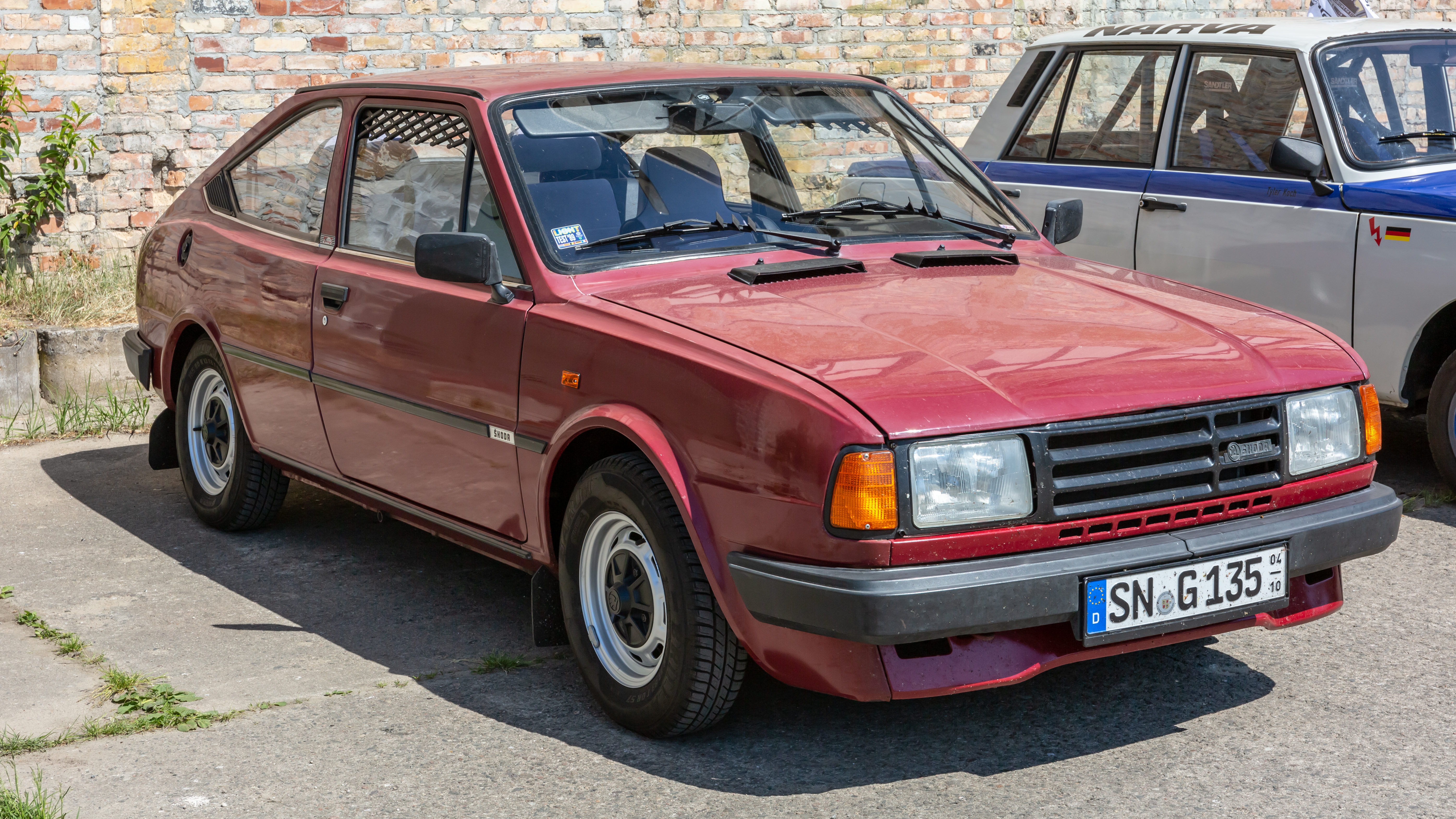 Skoda Rapid, Pfingsttreffen Pütnitz 2018